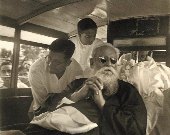 One of the last 3 picture of Rabindranath Tagore. Uploader:Rahat.